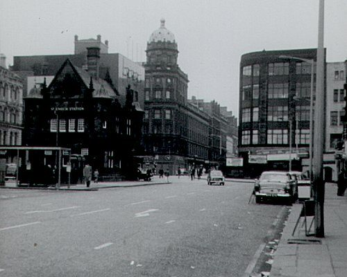 St. Enoch Square Original description: St Enoch Square St Enoch Station in St Enoch Square, 1966.